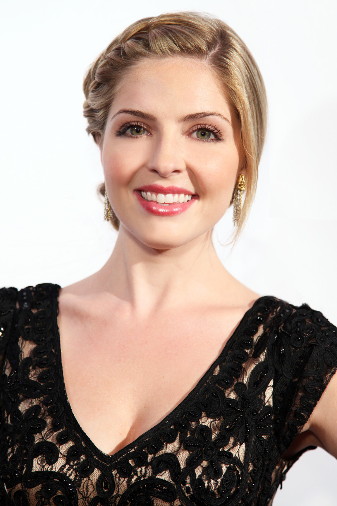 Jen Lilley, Los Angeles, CA on September 21, 2012 - Photo by Glenn Francis and